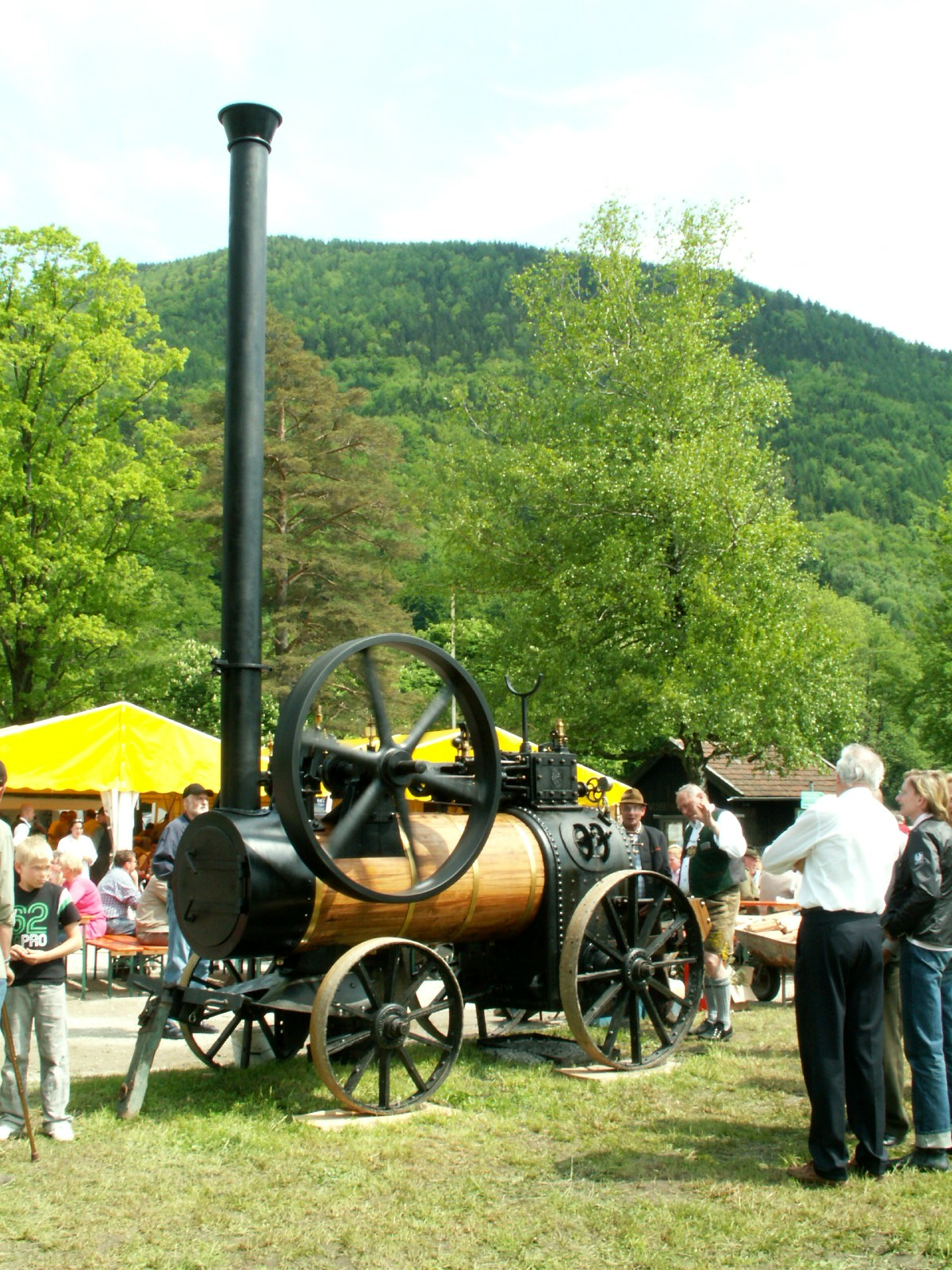 Portable engine (mobile steam engine) Prag-Bubna, Umrath & Comp.